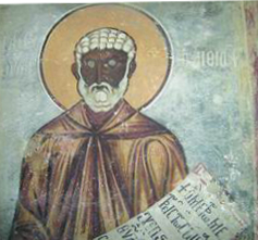 Perspective-corrected and slightly cropped version of File:Св. Мојсеј Мурин од Мариово.jpg